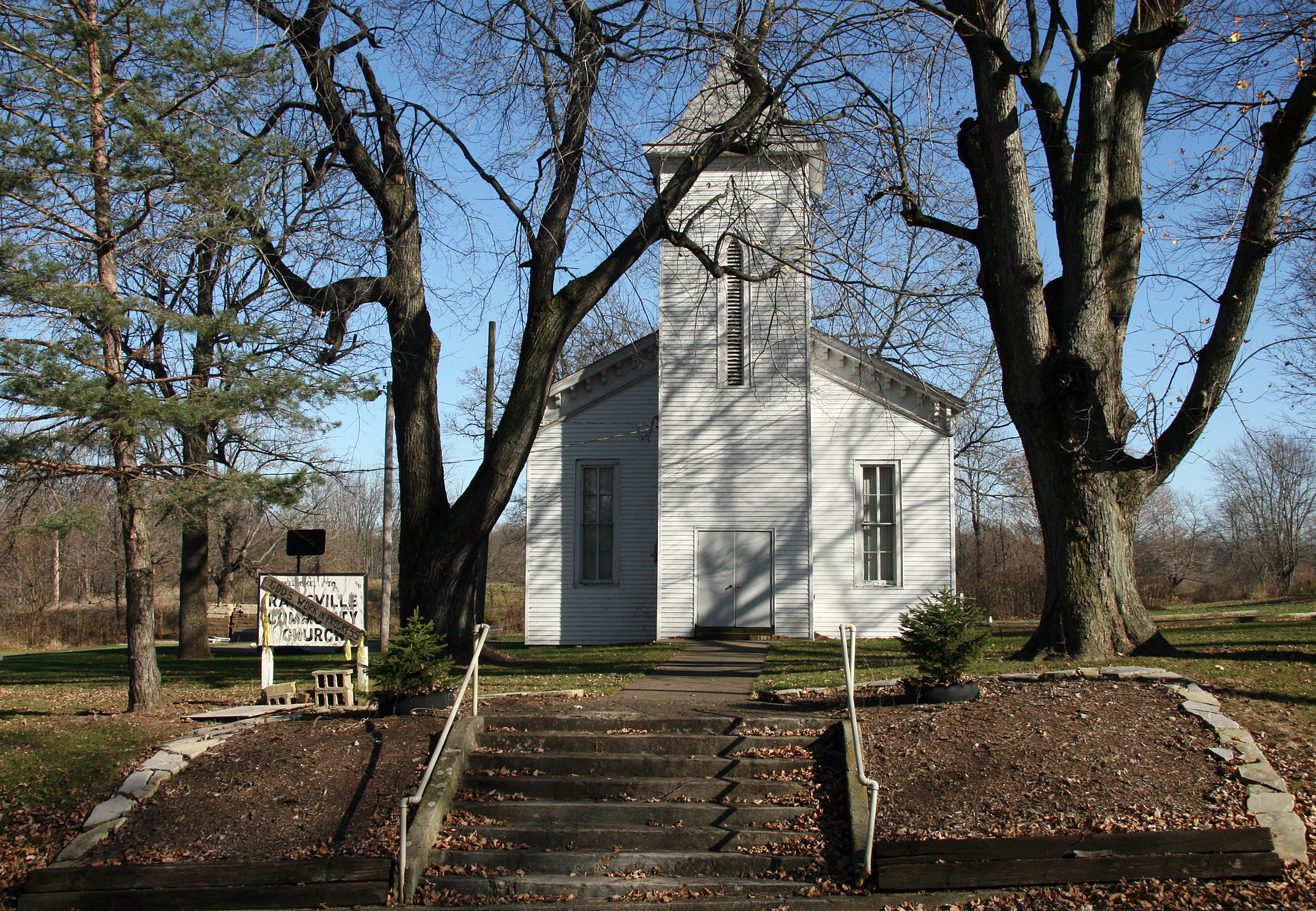 Rainsville Community Church in Rainsville, Indiana. Photo looks east from Rainsville Road.